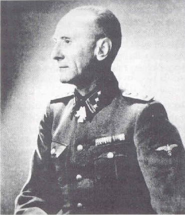 German SS-Hauptsturmführer Branimir Altgayer.